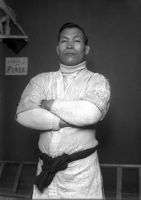 A French newspaper photo of Japanese wrestler Taro Miyake in his 1914 visit to Maitrot’s Academy in Paris.